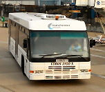 Manchester Airport airside bus, a Contrac Cobus 2700s.